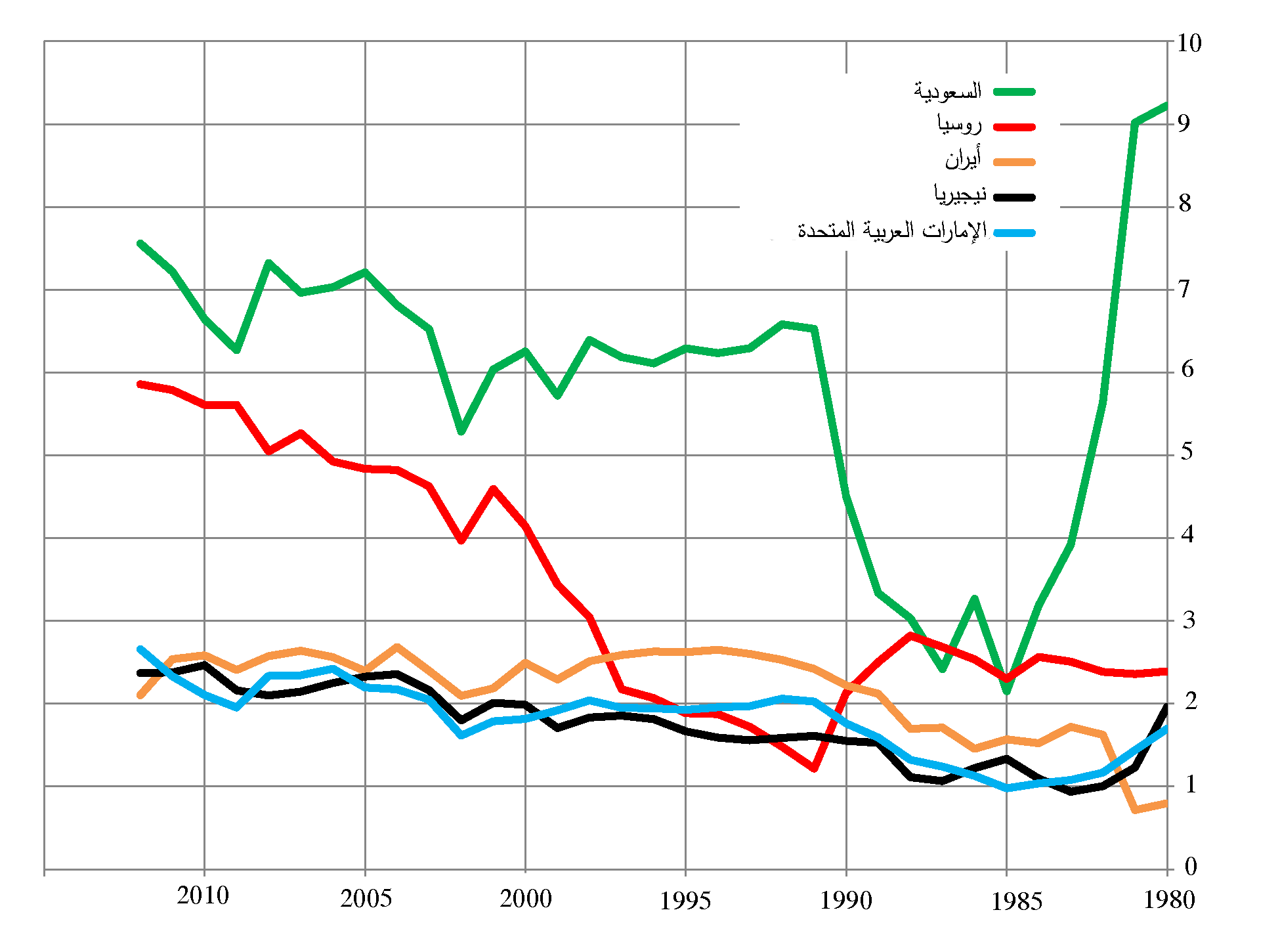 Trends in the top five crude oil-exporting countries, 1980-2012